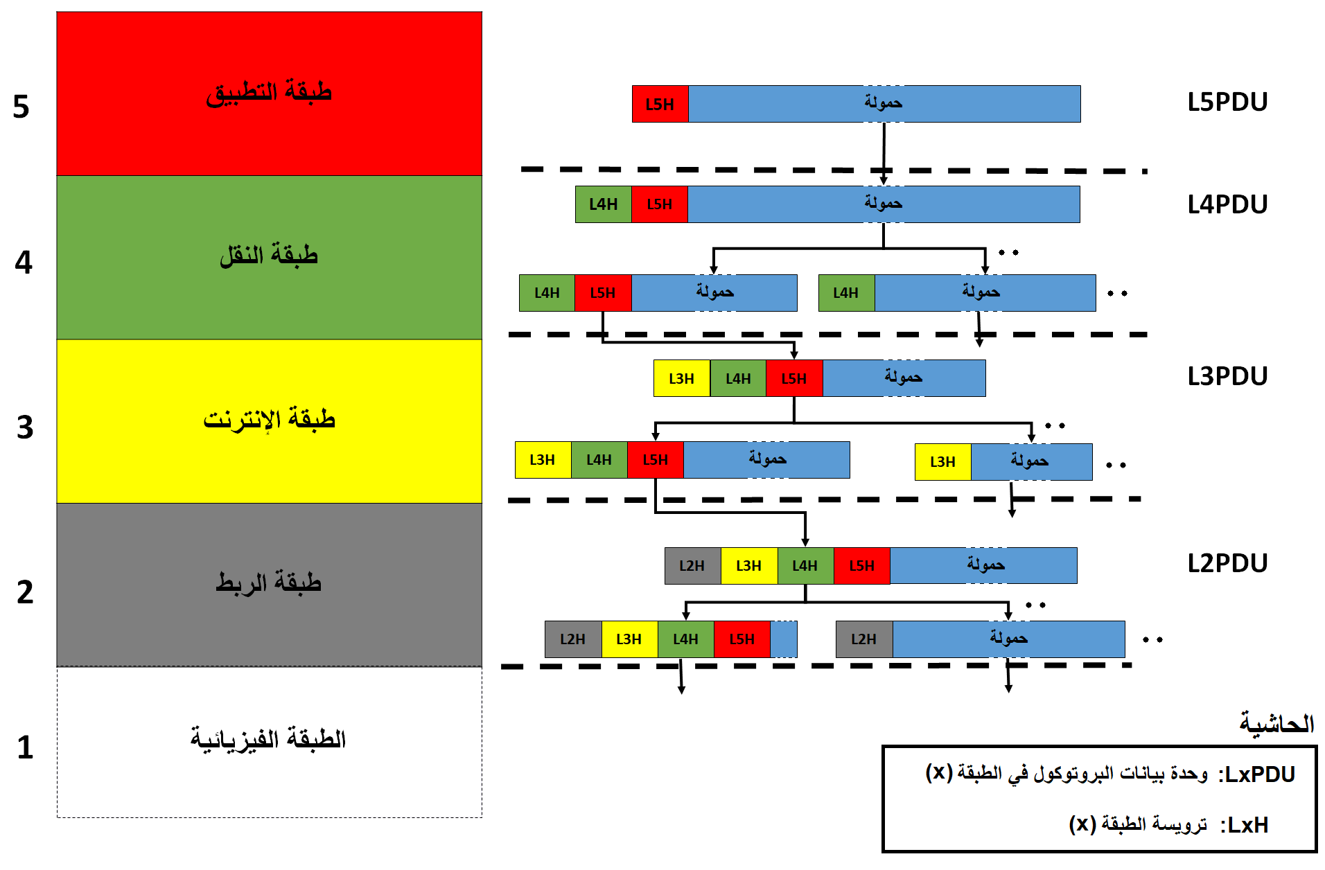 Fragmentation in the TCP/IP model.